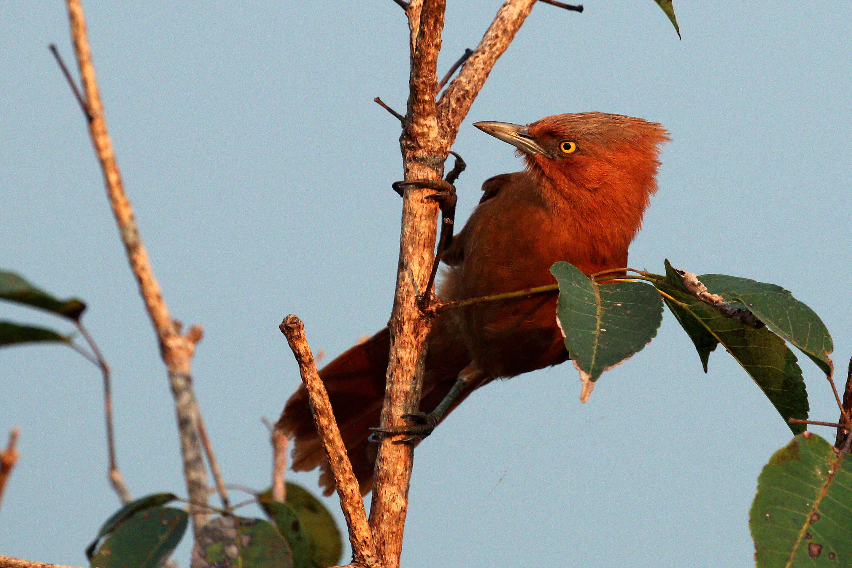 Grey-chested cacholote (Pseudoseisura unirufa), the Pantanal, Brazil